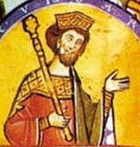 Andrew II of Hungary